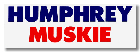 Logo for Hubert Humphrey presidential campaign, 1968